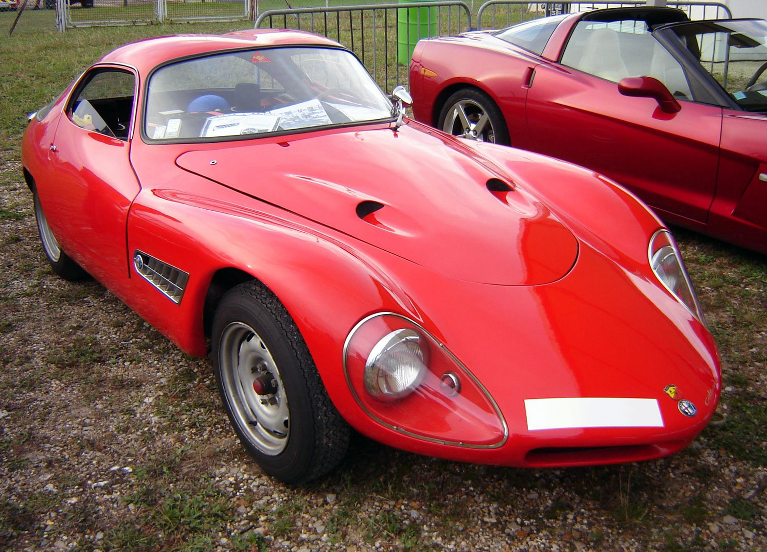 1959 Abarth-Alfa Romeo 1300 Berlinetta (Colani) at the Autodrome de Linas-Montlhéry, 2009. There were originally three (or two?) 998cc Abarth-Alfa Romeos built, after two were crashed while testing in Germany Colani bought the leftovers and rebodied them. The original short-stroke 998cc engine has since presumably been replaced with regular 1,290cc twin-cams.